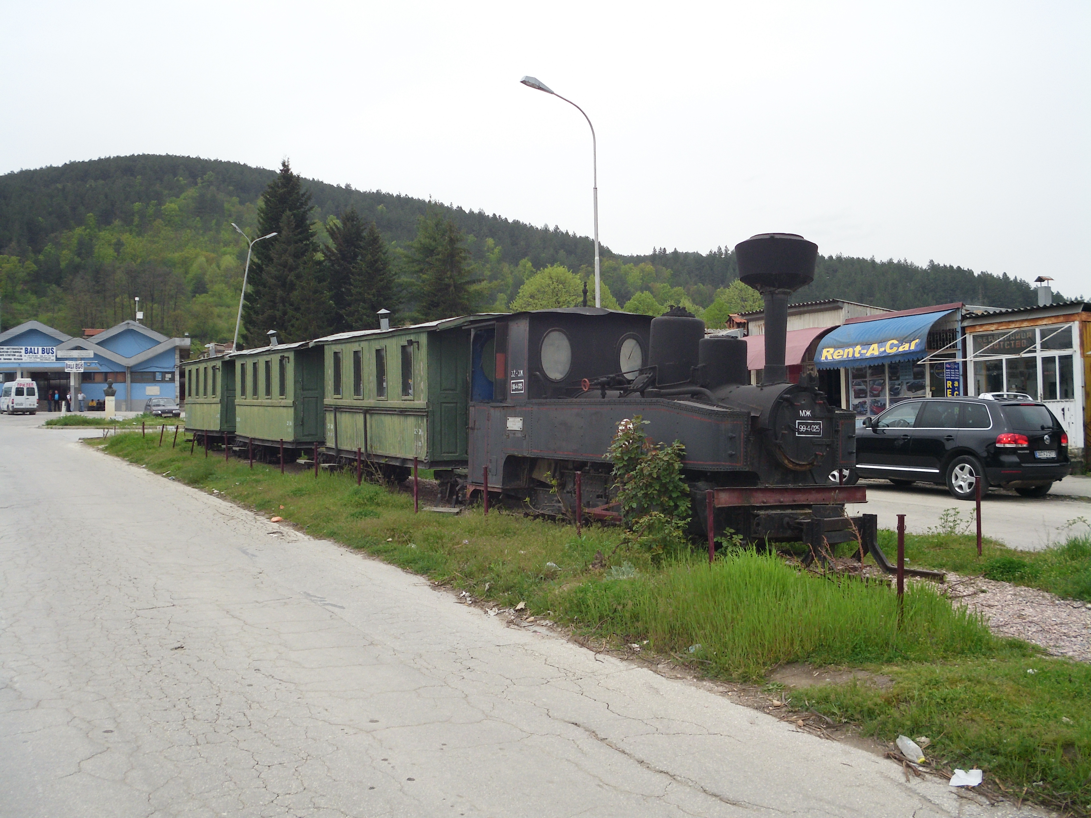 A monument to a former narrow-gauge railway, which used to connect Gostivar with Kičevo and Ohrid in present-day Macedonia. It is located in front of a train station in Kičevo.